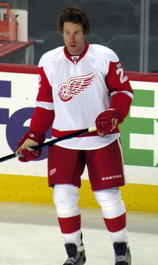 Detroit Red Wings defenceman Mike Commodore prior to a National Hockey League game against the Calgary Flames.